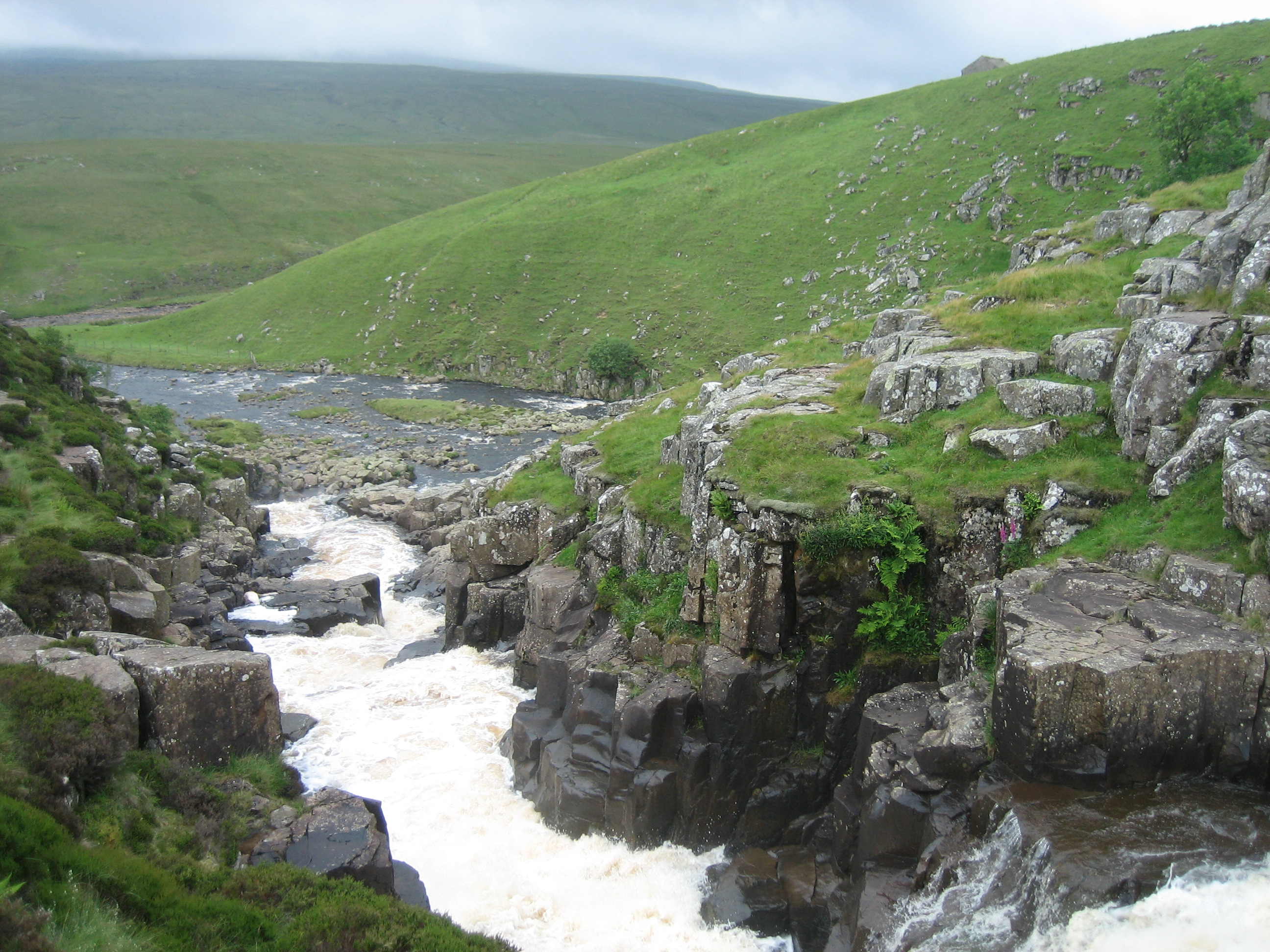 Cauldron Snout waterfall, Upper Teesdale, UK